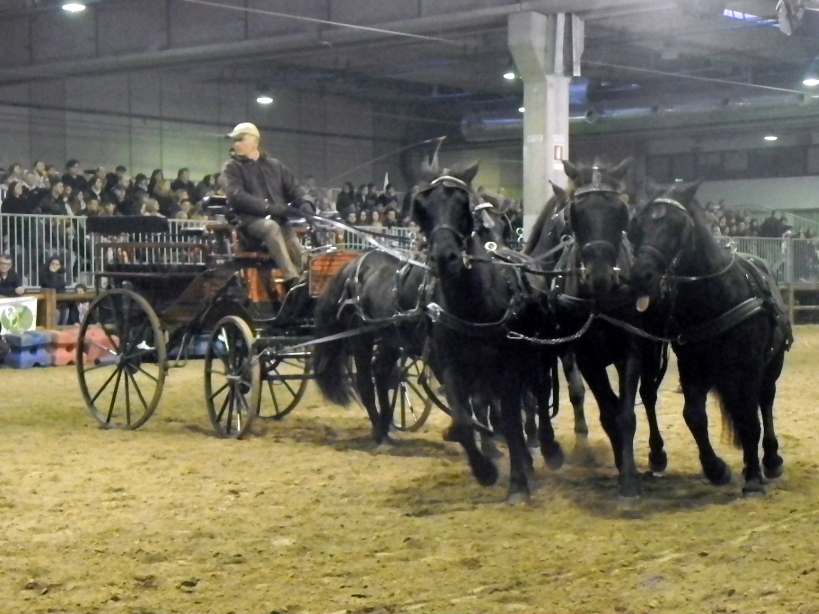 Esperia Pony (Pony dell'Esperia), driven five-in-hand, photographed at Fieracavalli, Verona, Italy, on 9 November 2014.